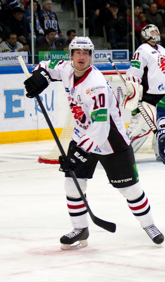 Roman Cervenka during the KHL game «Амур» — «Авангард» October 18, 2011